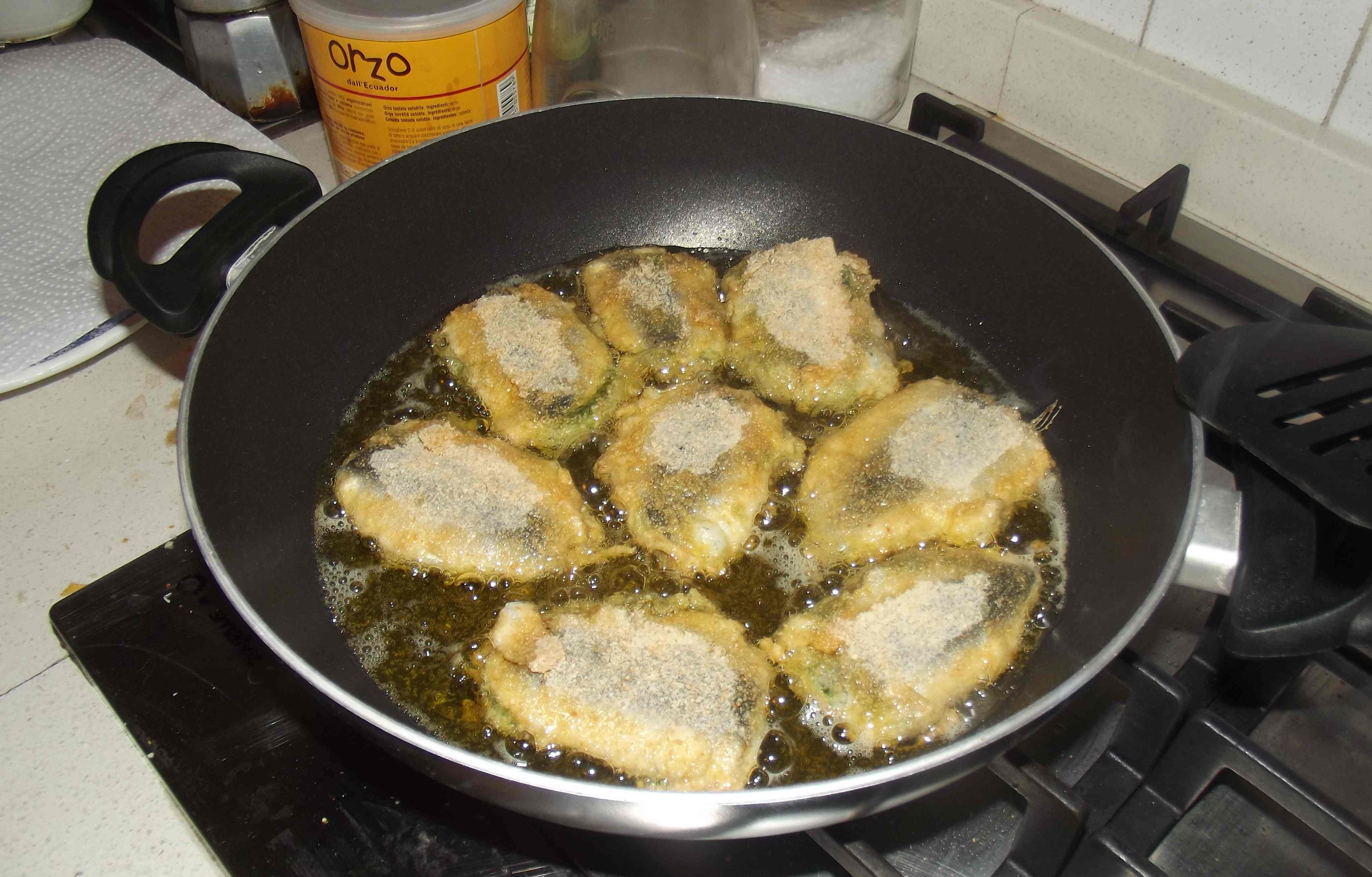 Stuffed sardines while frying